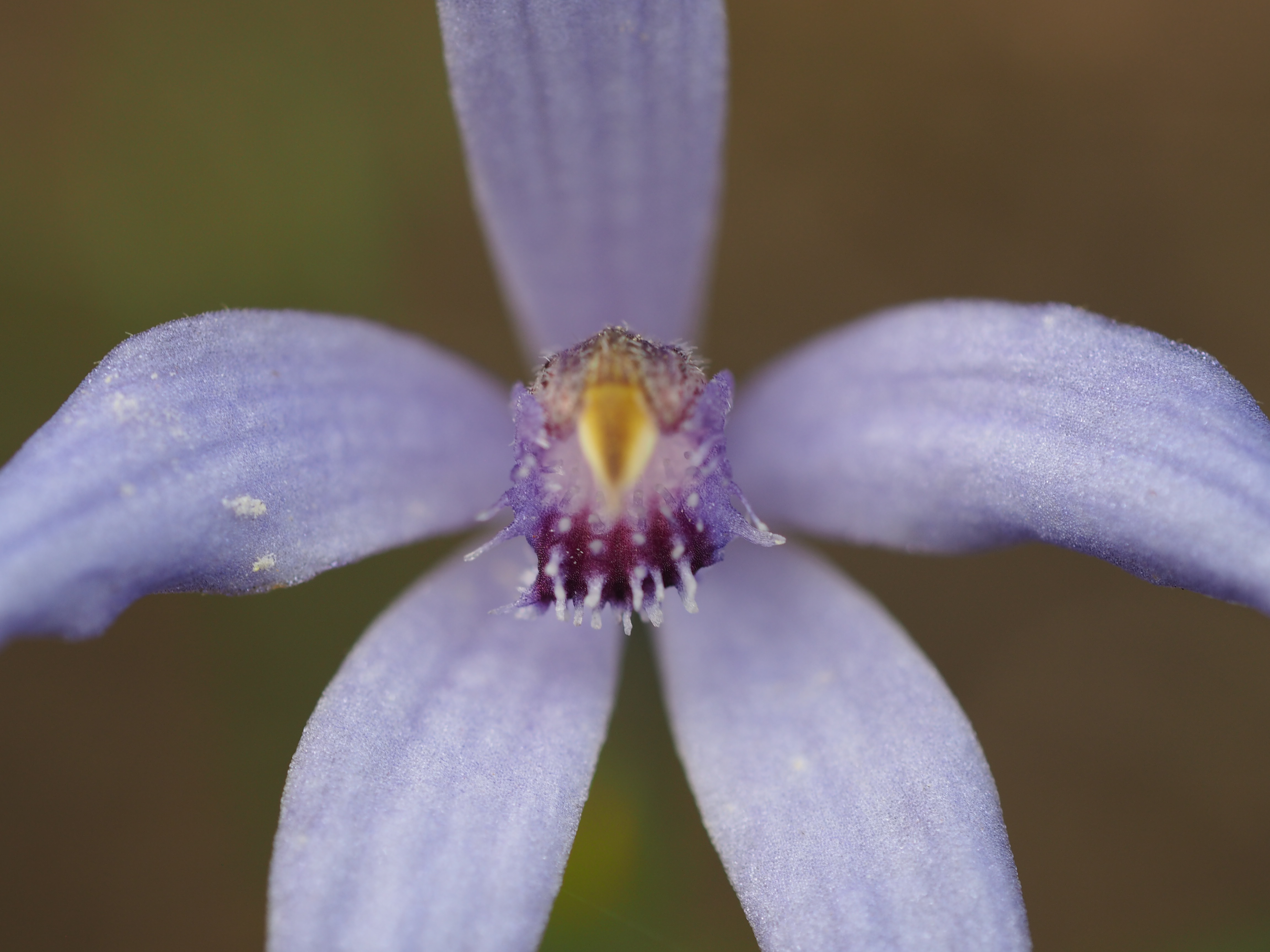 Pheladenia deformis growing near Badgingarra